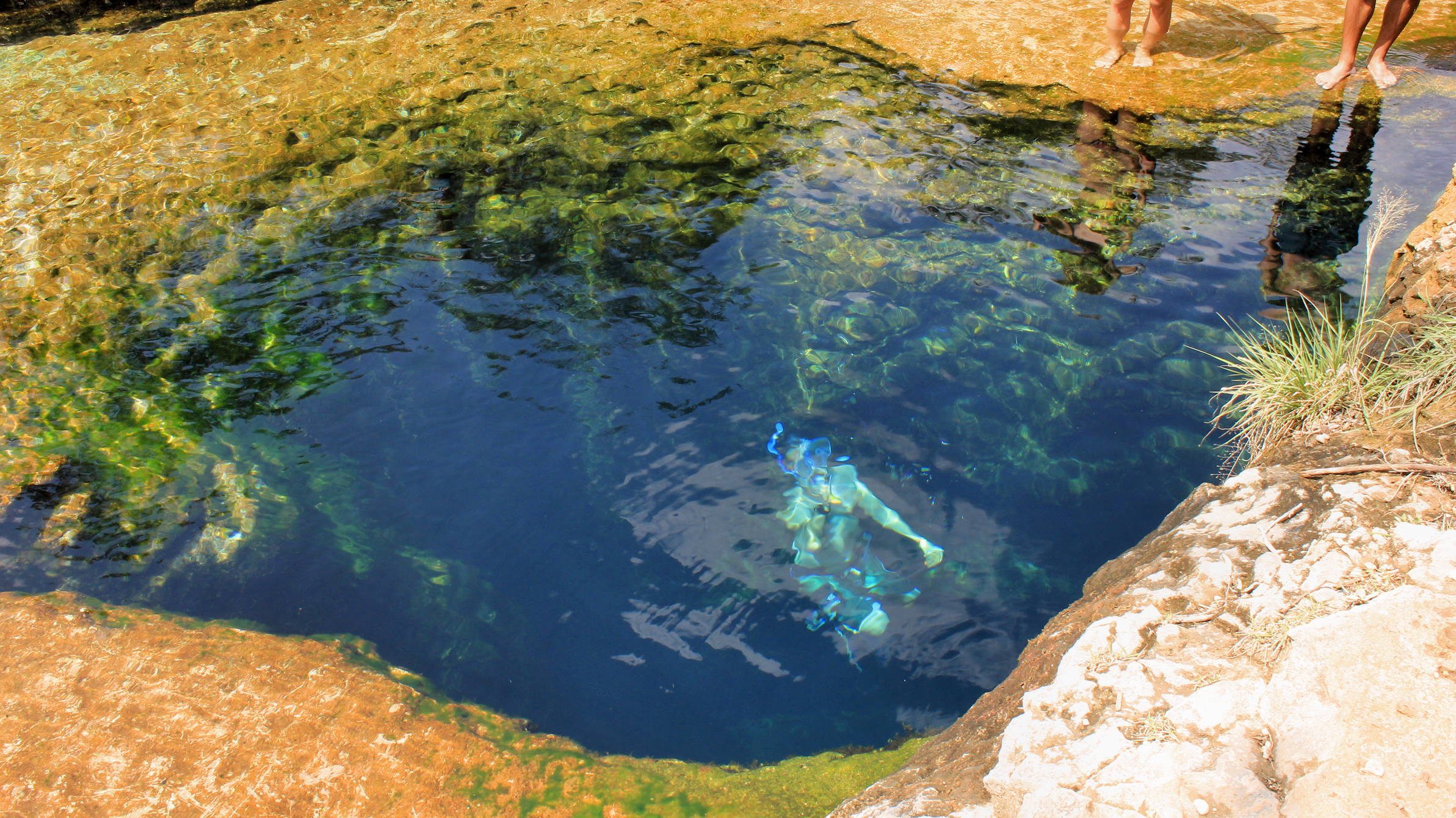 A swimmer in Jacob's Well in Hays County, Texas, United States.